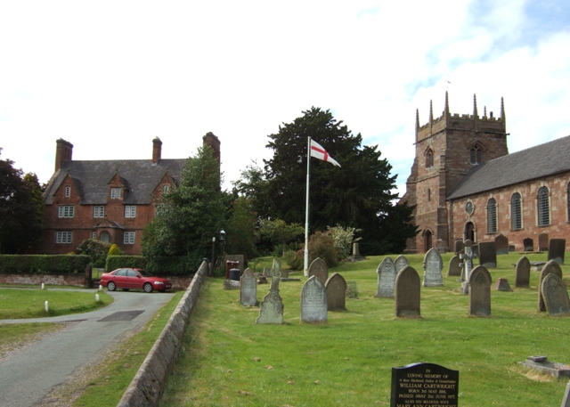 Forton The archetypal heart of an English village - Forton Hall, built in 1665, with its massive chimneys, sits in respectable union with the parish church of All Saints.